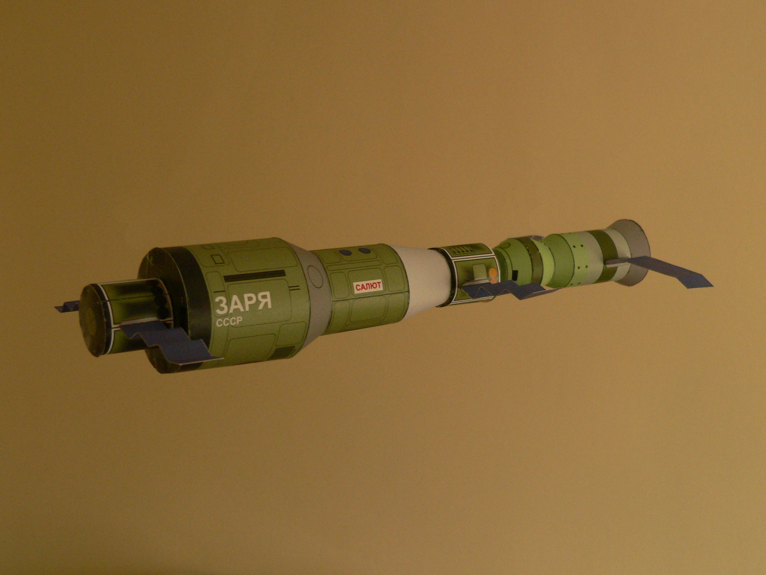 Paper model of Salyut 1 soviet space station with manned Soyuz crat docked.